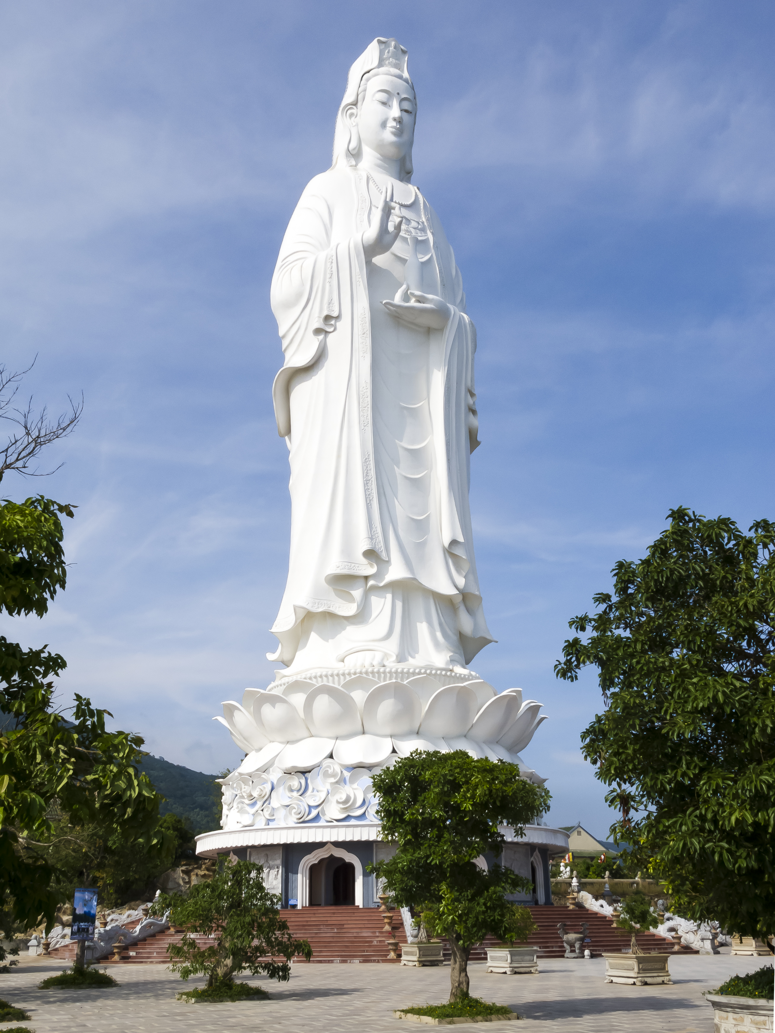 Son Tra Peninsula, Đà Nẵng, Vietnam: The 67-meter-high statue of the Bodhisattva of Mercy on Son Tra Peninsula near Đà Nẵng (Vietnam). It is considered to be the highest buddhism-related statue in Vietnam